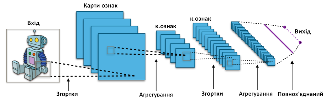 Typical CNN architecture (in Ukrainian)